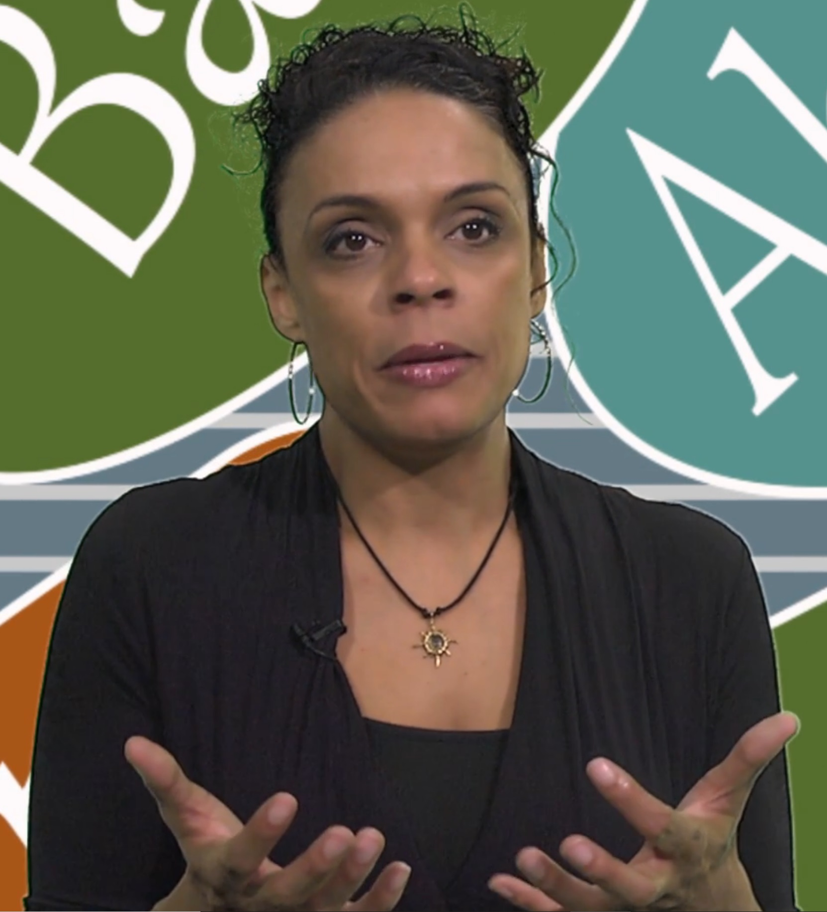 What is the relationship between gesture, language and learning in infants? Makeba Wilbourn, associate professor of the practice of psychology and neuroscience at Duke University, answers the question on this edition of "Ask a Scientist." Provided by National Science Foundation